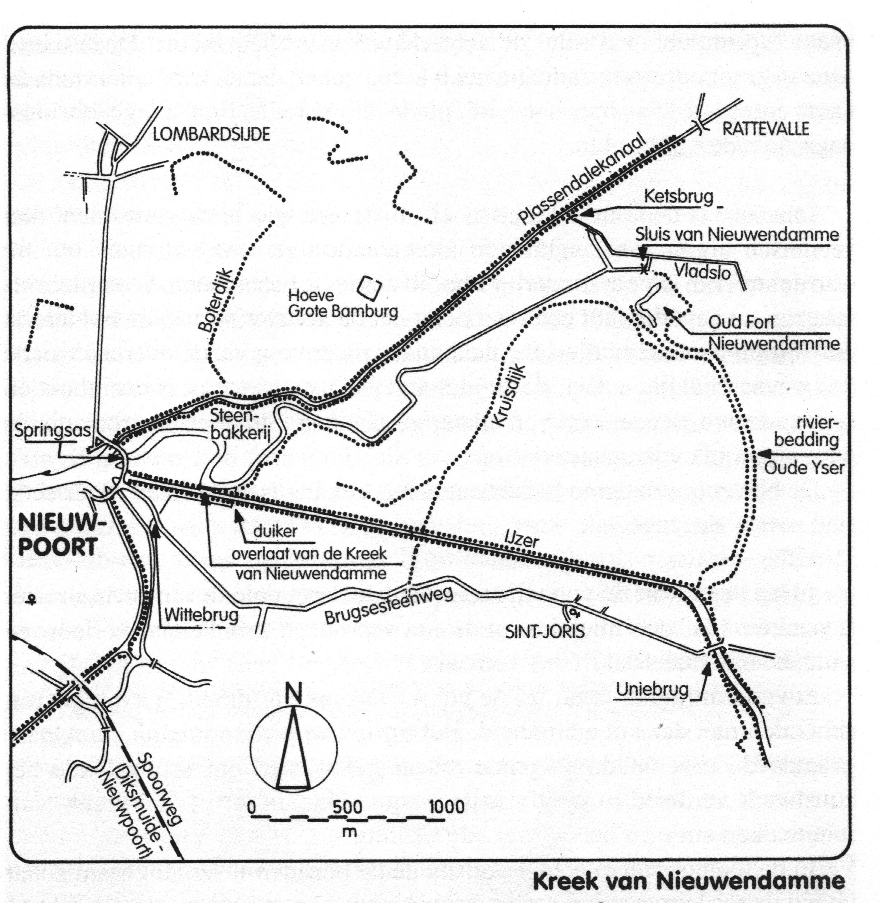 The Nieuwland polder between the Yser and the Kreek van Nieuwendamme